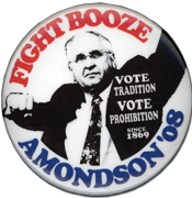 2008 campaign button for Gene Amondson